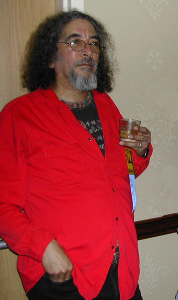 Picture of Robert Lynn Asprin at ConDFW, a convention in Dallas/Fort Worth